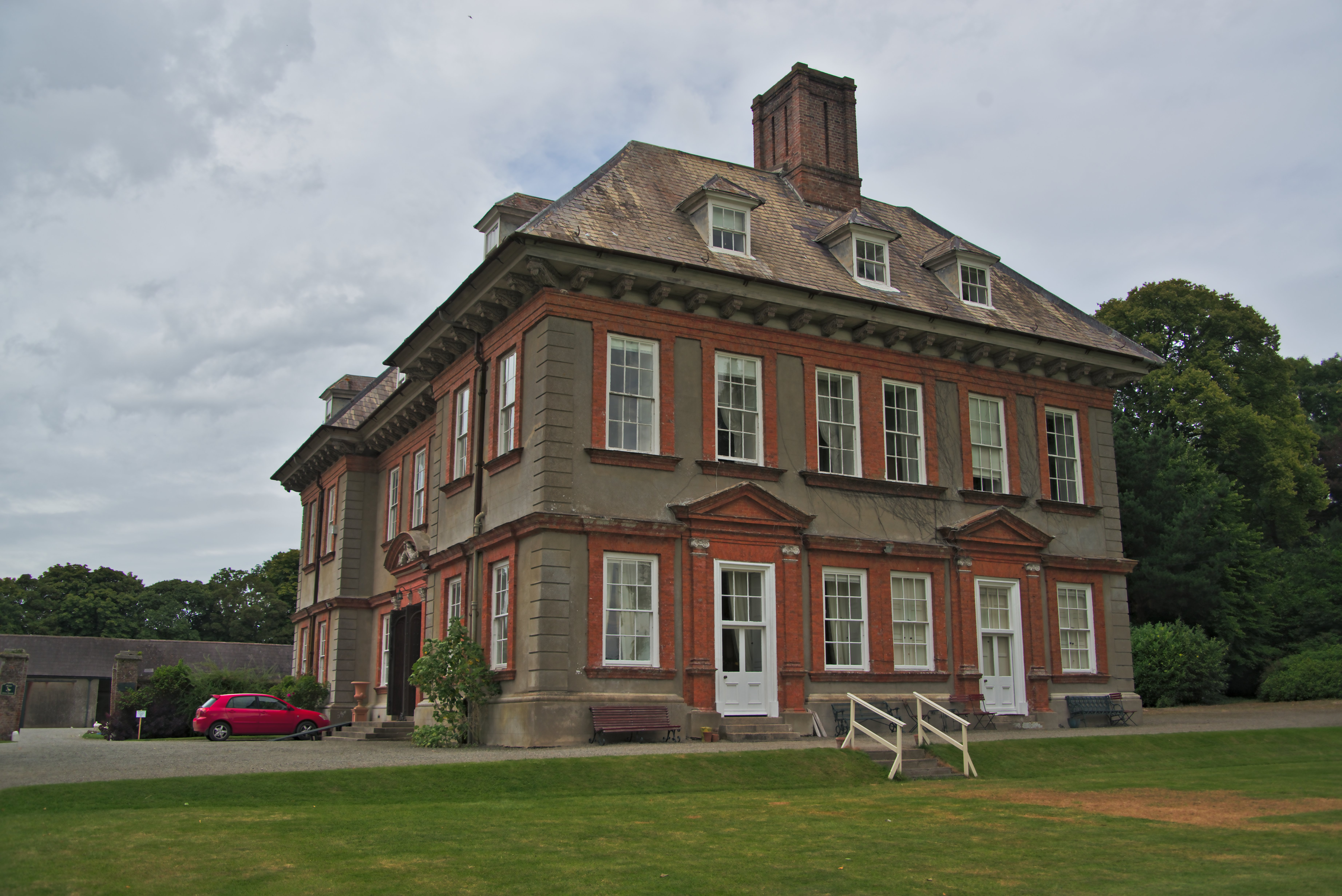 External view of Beaulieu House in County Louth, Republic of Ireland